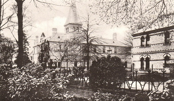 Old postcard of North Cambridgeshire Hospital